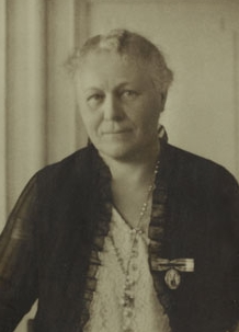 Cropped version of: Photograph of the Danish politician and women's rights activist Marie Hjelmer 1869-1937